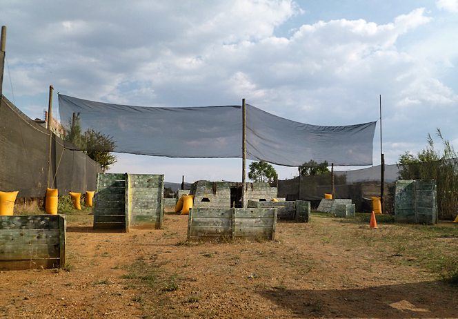 A non-commercial community paintball field with wooden structures, used in playing "renegade" paintball. Location: Reforestacion, Oaxaca de Juarez, Mexico.